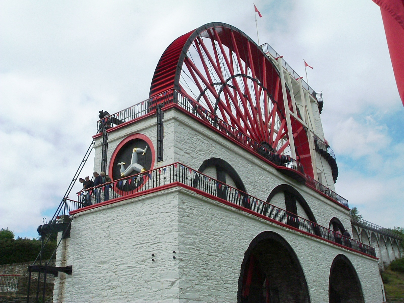 A foto taken of the Laxey Wheel on the Isle of Man. Taken by me.